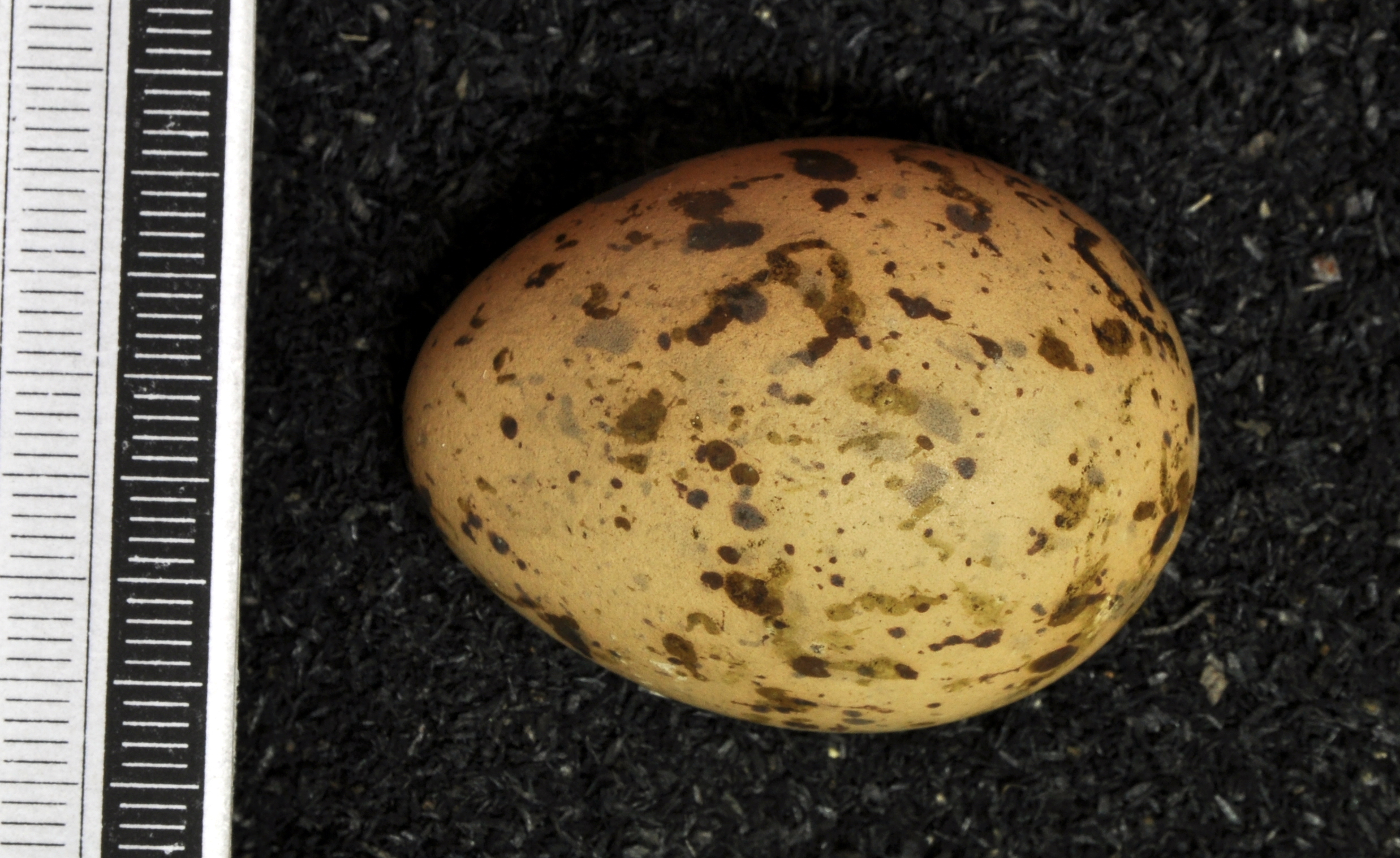 Roseate tern Sterna dougallii , egg, Coll. Museum Wiesbaden